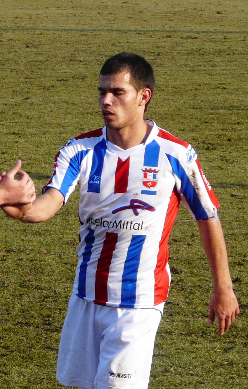 Laurentiu Iorga in March 2011, during Otelul - Rapid